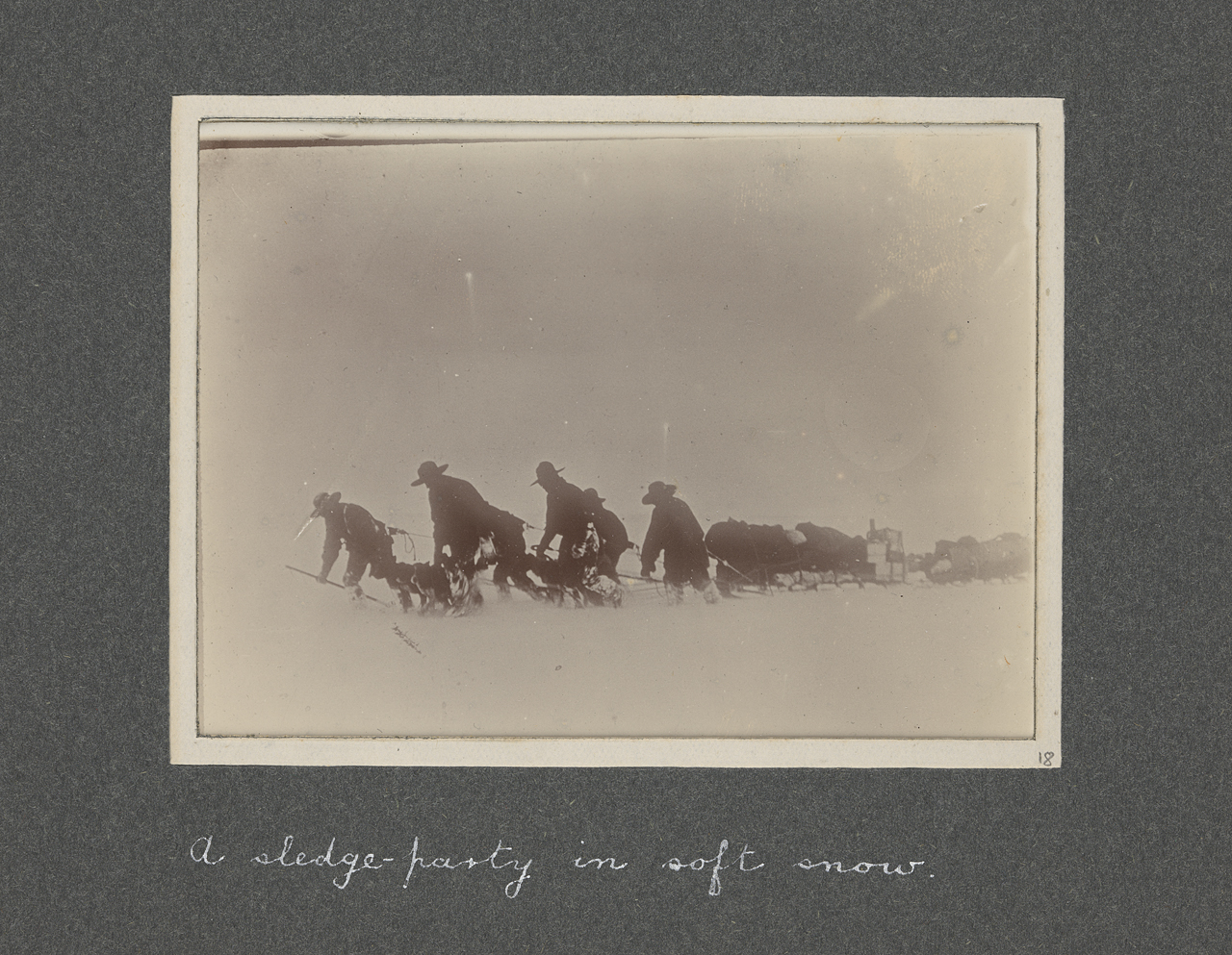 National Antarctic Expedition, 1901-1903 A cloth covered album containing 48 photographic prints relating to the National Antarctic Expedition between 1901 and 1903 when E. H. Shackleton was sent home. The album is inscribed by Shackleton "With kindest wishes from E. H. Shackleton to the Missis Dawson Lambton in Remembrance of the great share they took in helping the Expedition, June 1905." According to a caption in the album the Dawson Lambton's subscribed to the balloon that was taken and used. A few photographs illustrate the balloon and the view from it. There is some element of doubt about the accuracy of some of the captions and images. They may have been compiled in such a way as to provide a narrative, rather than an accurate record as depicted by each image. ALB0346; A sledge-party in soft snow, plate 18